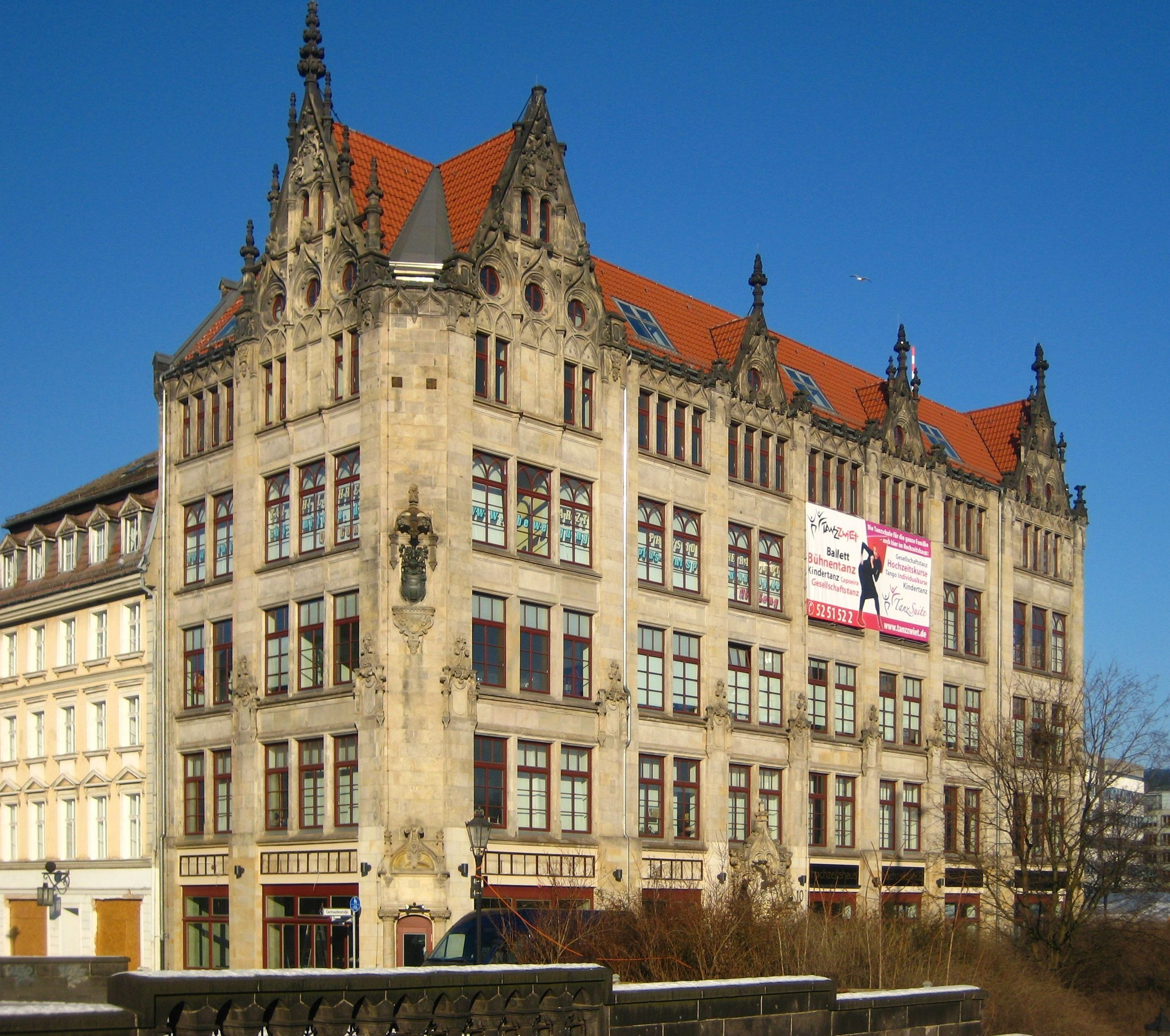 "Juwel-Palais" at Gertraudenstraße 10-12 on Spreeinsel in Berlin-Mitte, built 1897 to 1898 by architects Max Jacob and Georg Roensch in the neo-Gothic style. The building has been designated a historic landmark.